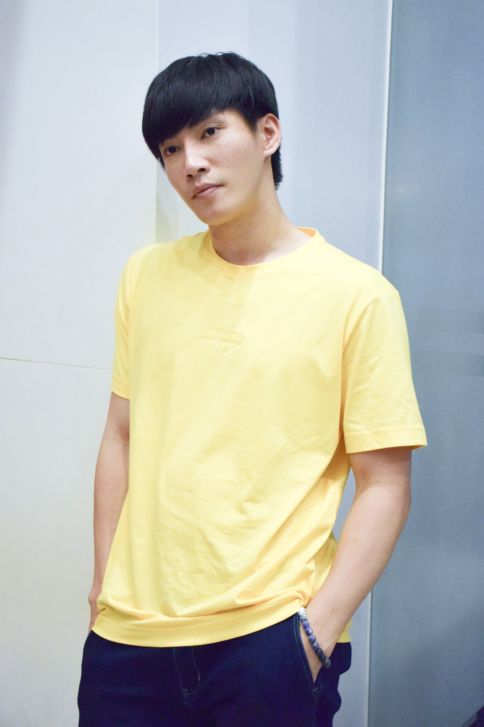 Guy Sivakorn